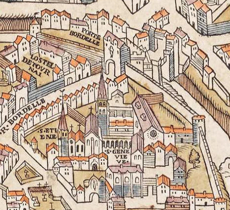 Bordelle gate and Abbey of St Genevieve on the plan de Truschet and Hoyau (1550).